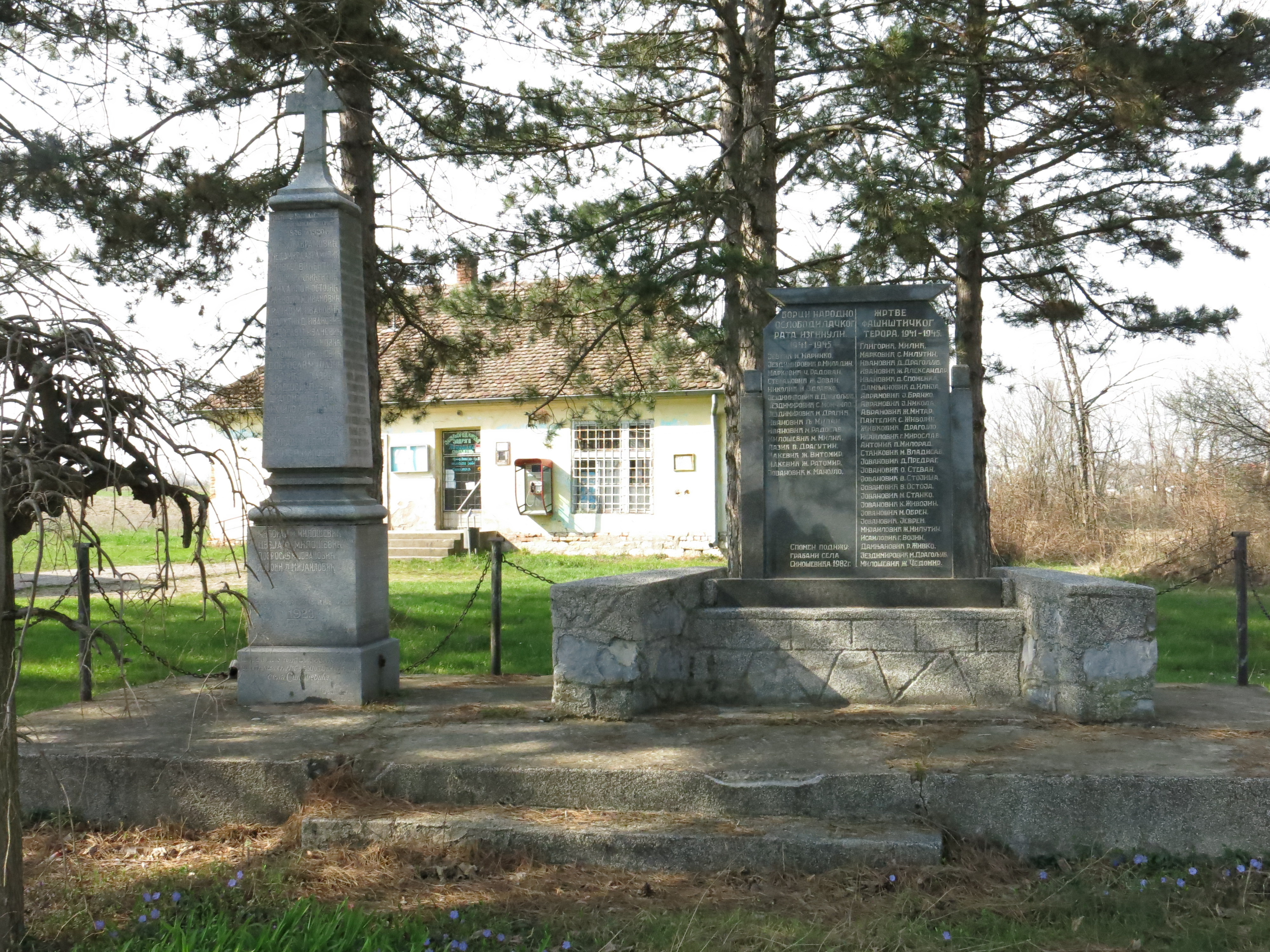 Sinošević, Monument to the warriors and victims of World War II